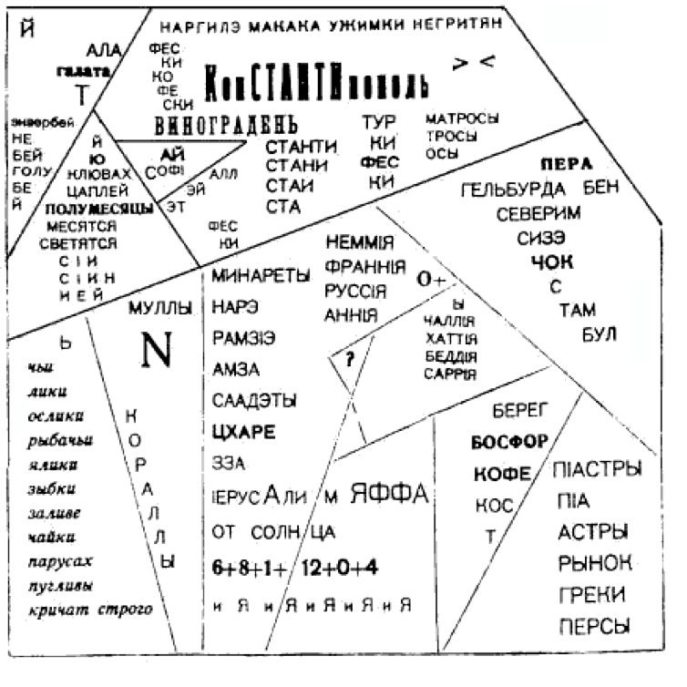 Vasily Kamensky Concrete Poetry. KonCTANTInopol by Vasily Kamensky 1914.